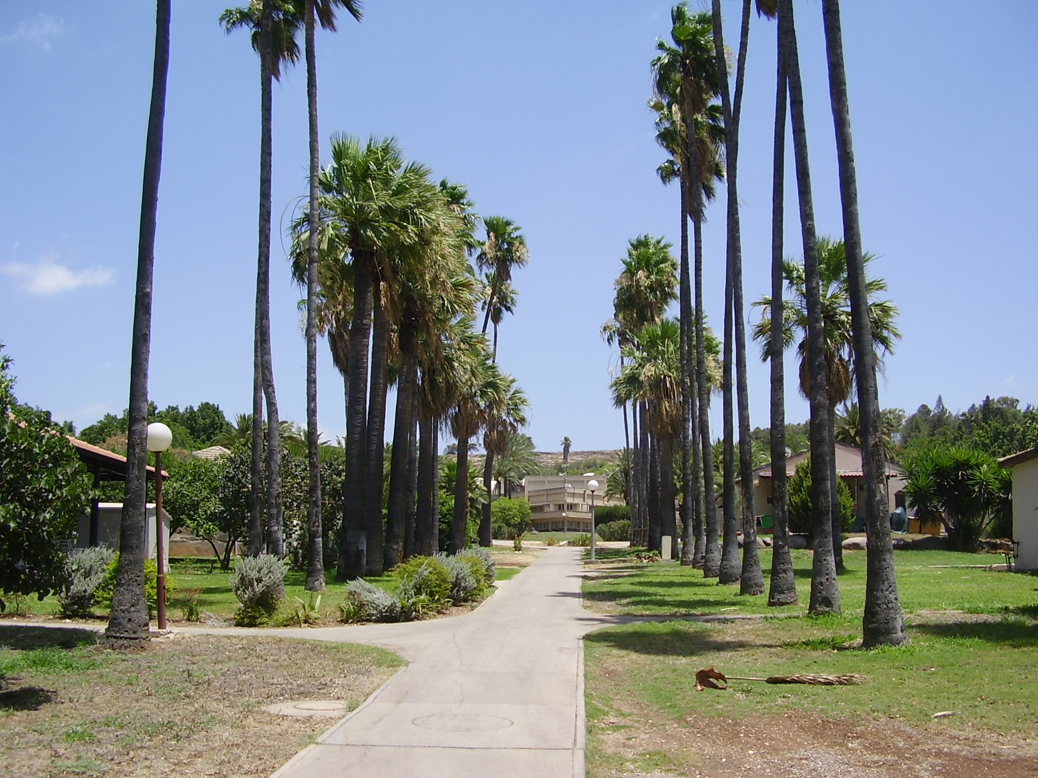 palms avenue and old dining house in kibbutz tel-yosef